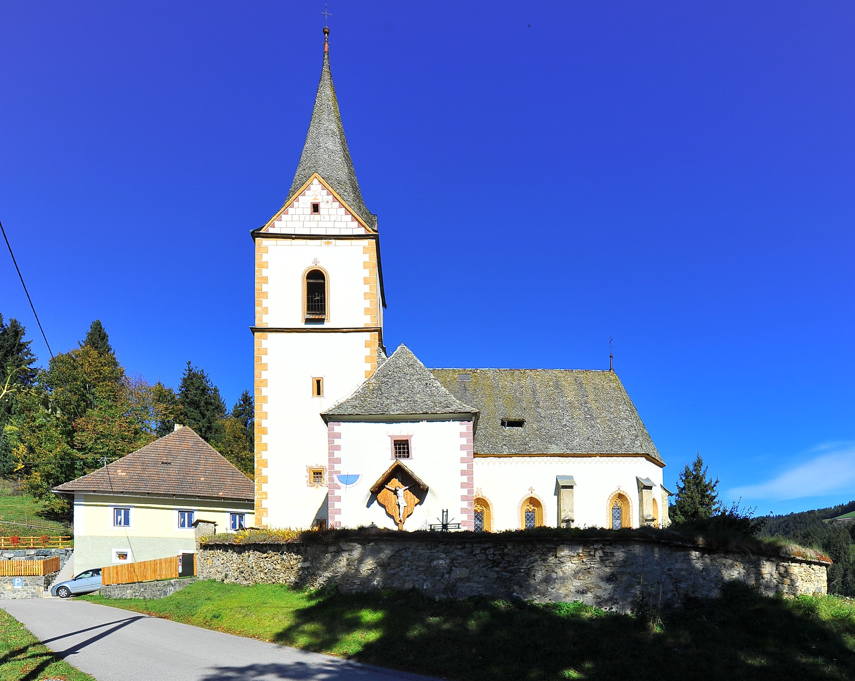 Parish church Saint Ulrich at Sankt Ulrich am Johannserberg, municipality Brückl, district Sankt Veit an der Glan, Carinthia / Austria / EU